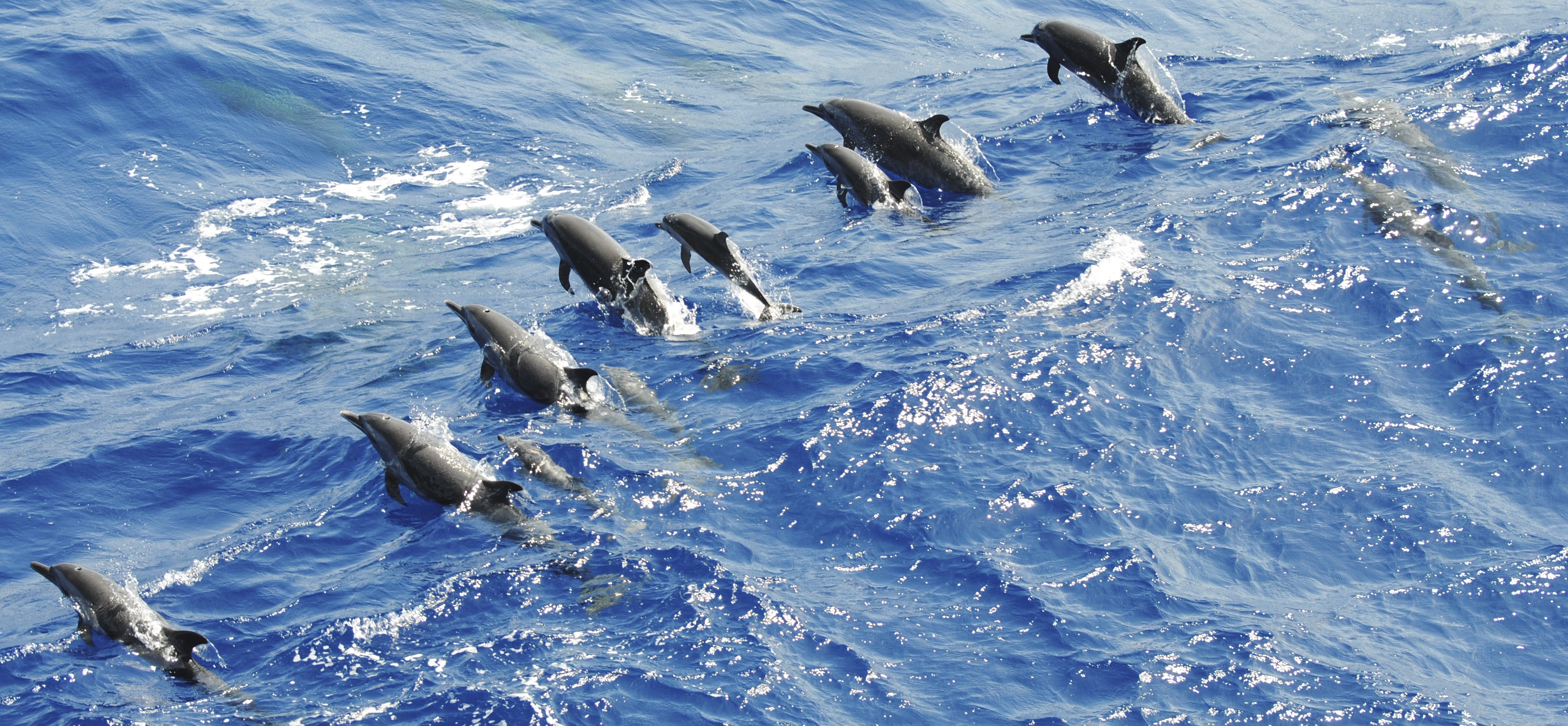 Colombian waters